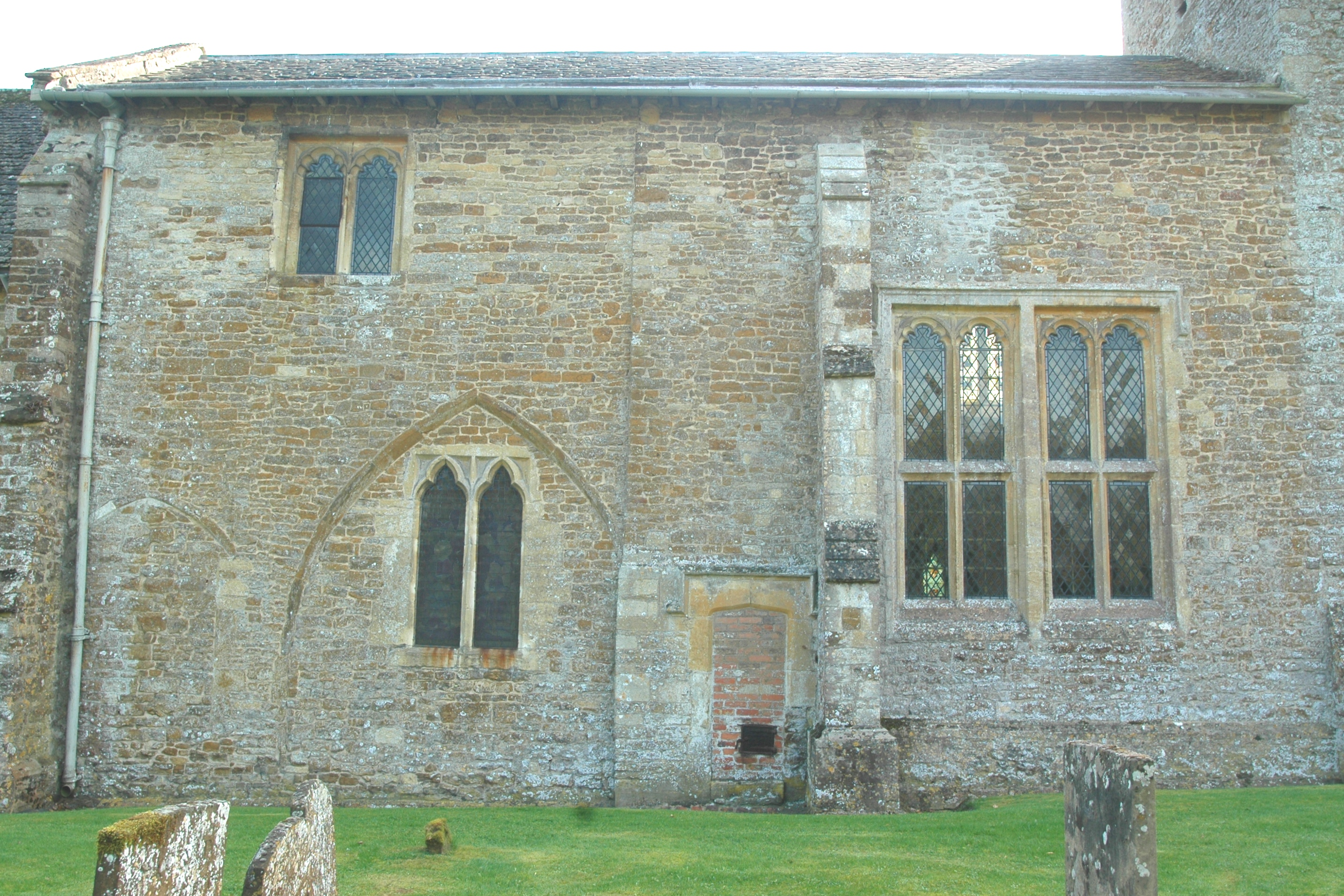 Nave of SS Leonard and James' parish church, Rousham, Oxfordshire, seen from the north